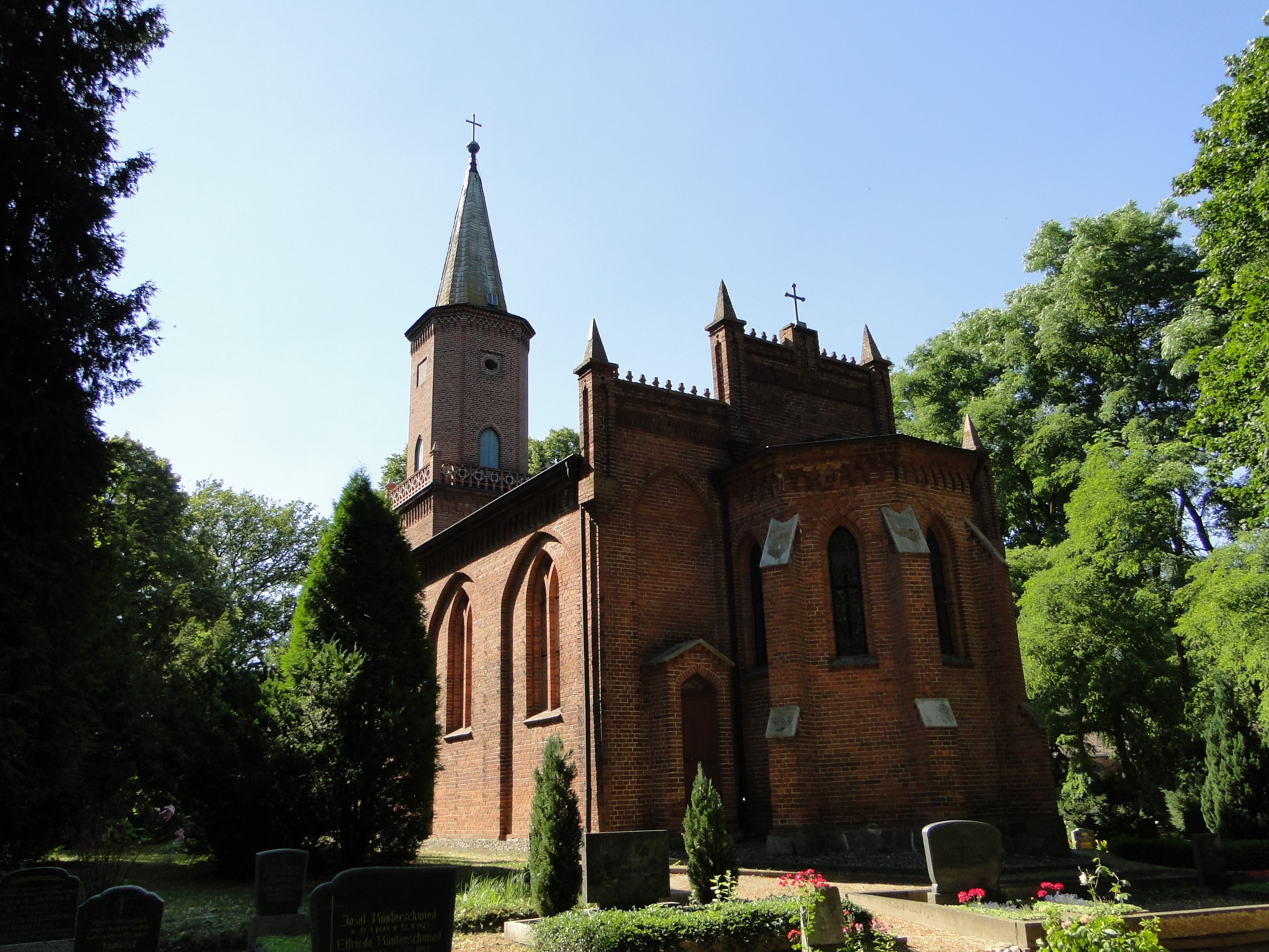 Church in Briggow, district Demmin, Mecklenburg-Vorpommern, Germany